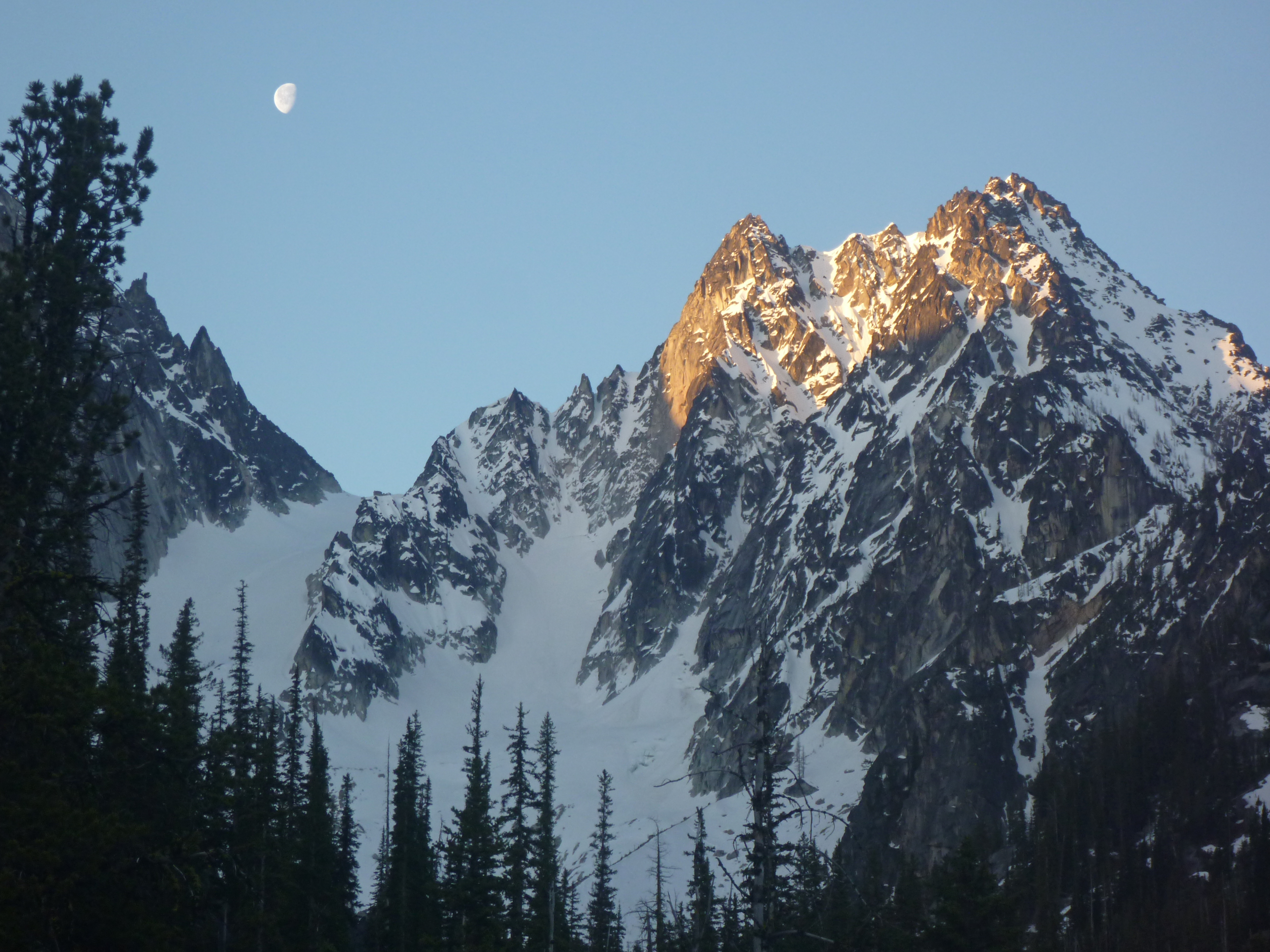 Moon over Colchuck Peak at sunrise, with Colchuck Glacier at left